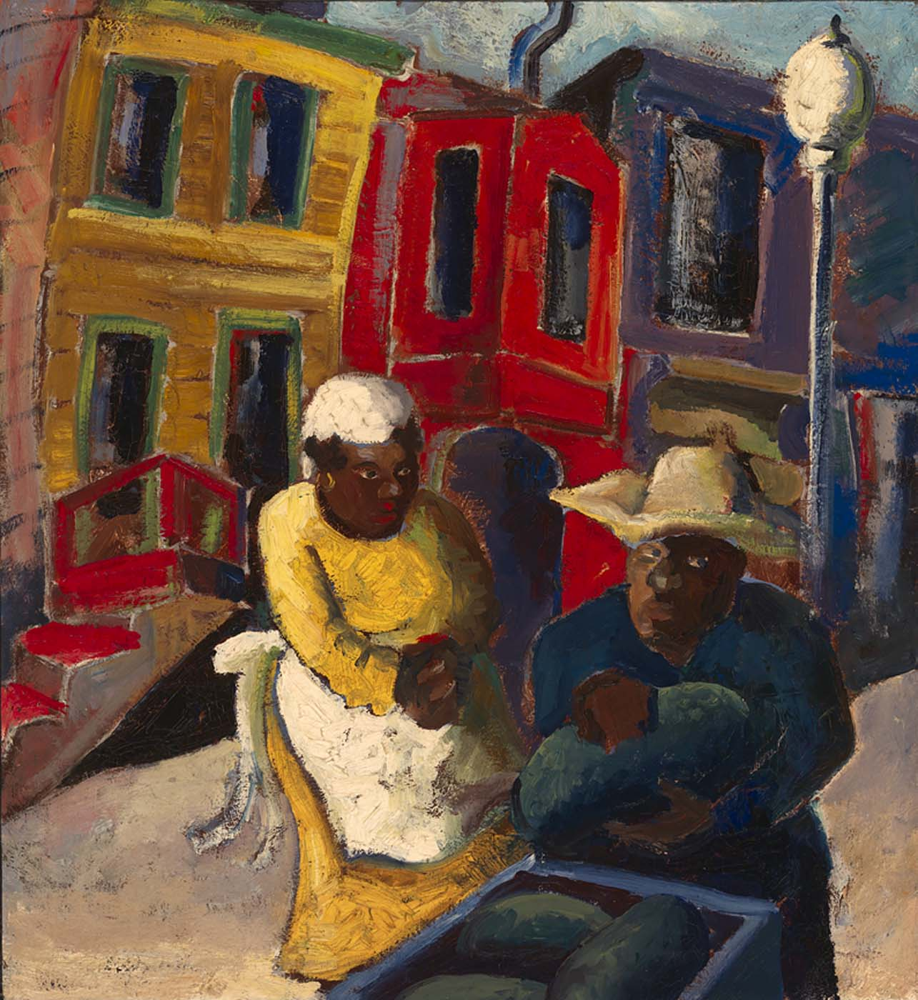 Bernice Cross, Melon Vendor, ca. 1934, oil on canvas 24⅛ x 18⅛ inches, Smithsonian American Art Museum, ca. 1934